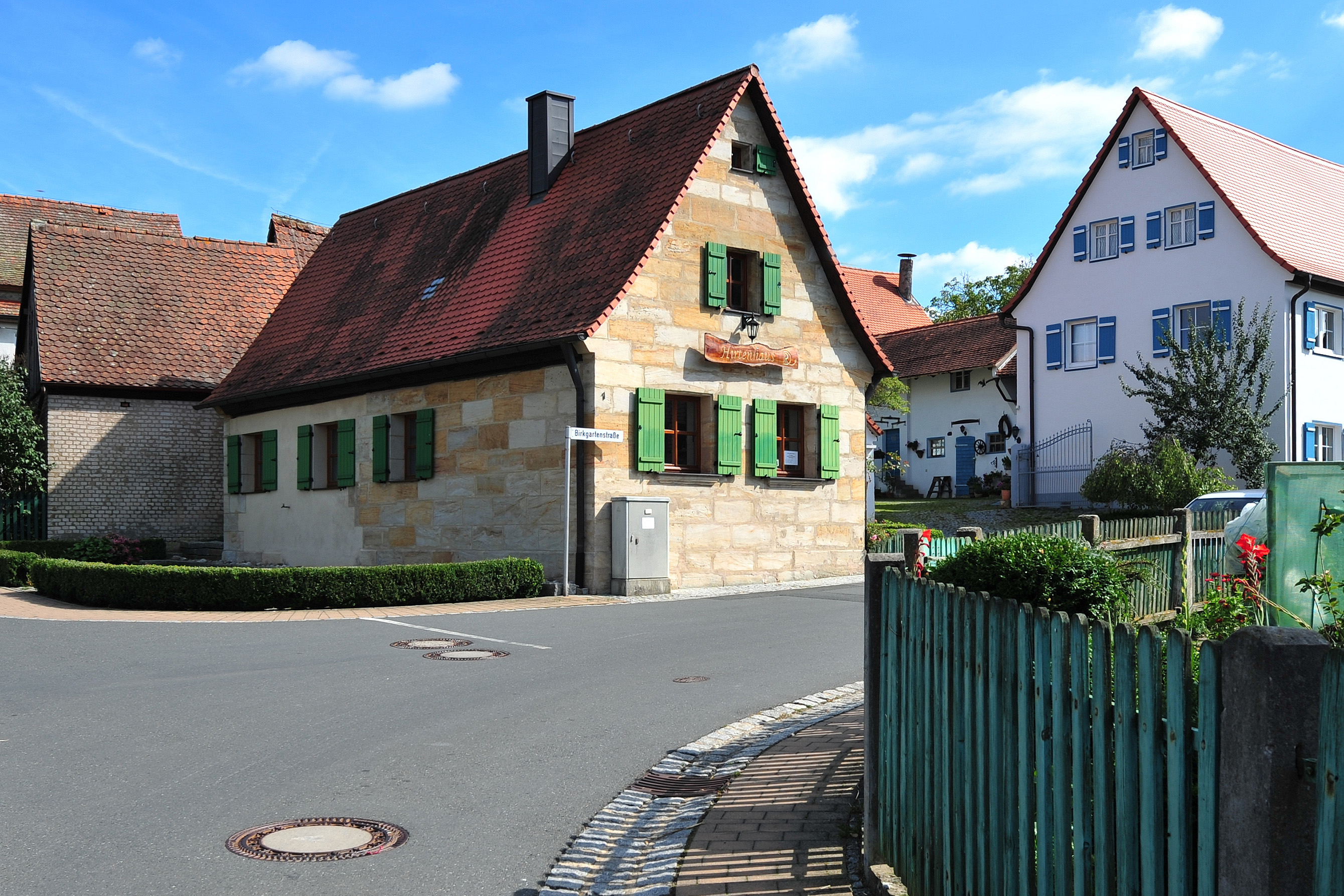 Kalchreuth-Röckenhof: Birkgartenstr. 1 This is a photograph of an architectural monument.